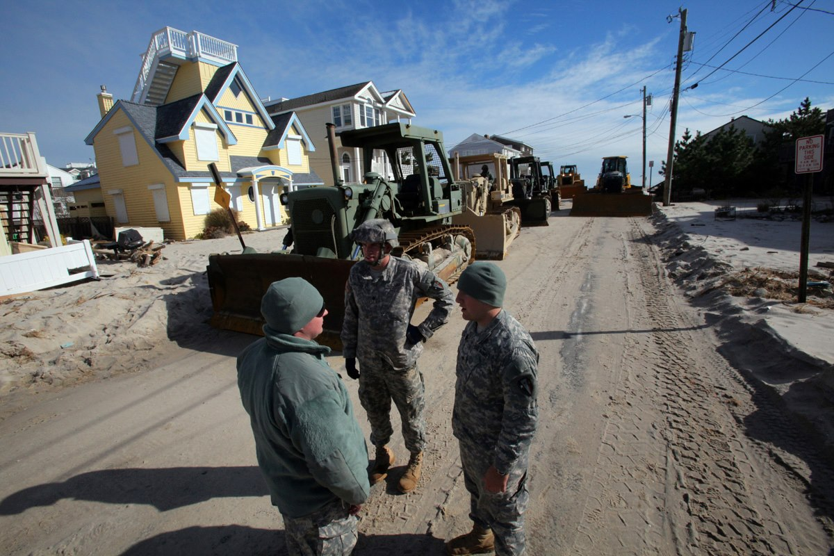 Soldiers from the 150th and 160th Engineer Companies, New Jersey Army National Guard, discuss movement options for their D7 bulldozers prior to performing beach replenishment operations Nov. 8, 2012, in the devastated Holgate section of Long Beach Island, N.J., following Hurricane Sandy and Nor’easter Athena. More than 2,000 Soldiers and Airmen from the New Jersey National Guard have been mobilized in response to Hurricane Sandy. (U.S. Air Force photo by Master Sgt. Mark C. Olsen/Released)